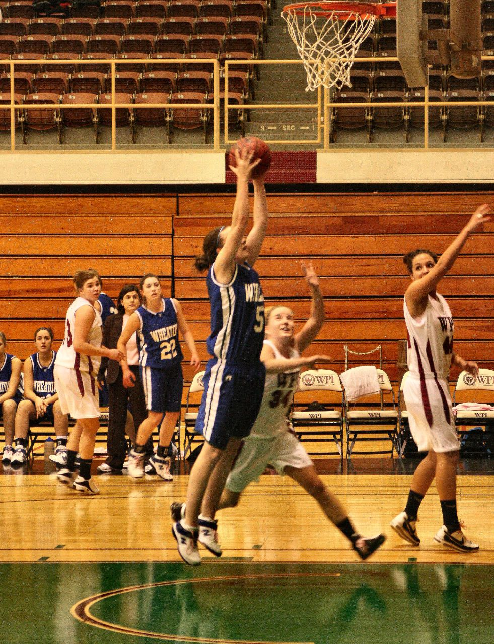 Women's college basketball: Bri Smith of Wheaton College (in blue) prepares to score against Worcester Polytechnic Institute (WPI) (in white). Game played at WPI on 16 February 2008. Result:Wheaton-WPI 60-44[1]